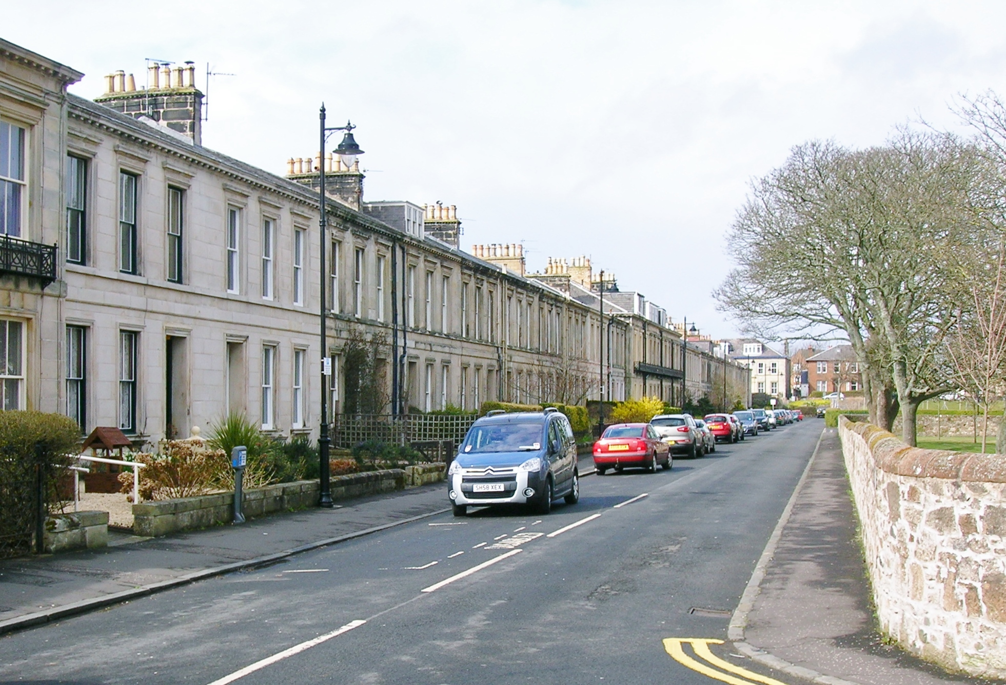 Eglinton Terrace, Ayr, Montgomerieston. Area within Ayr Citadel, South Ayrshire, Scotland. Montgomerie is the family name of the Earls of Eglinton.